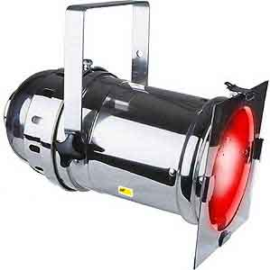 PAR projector